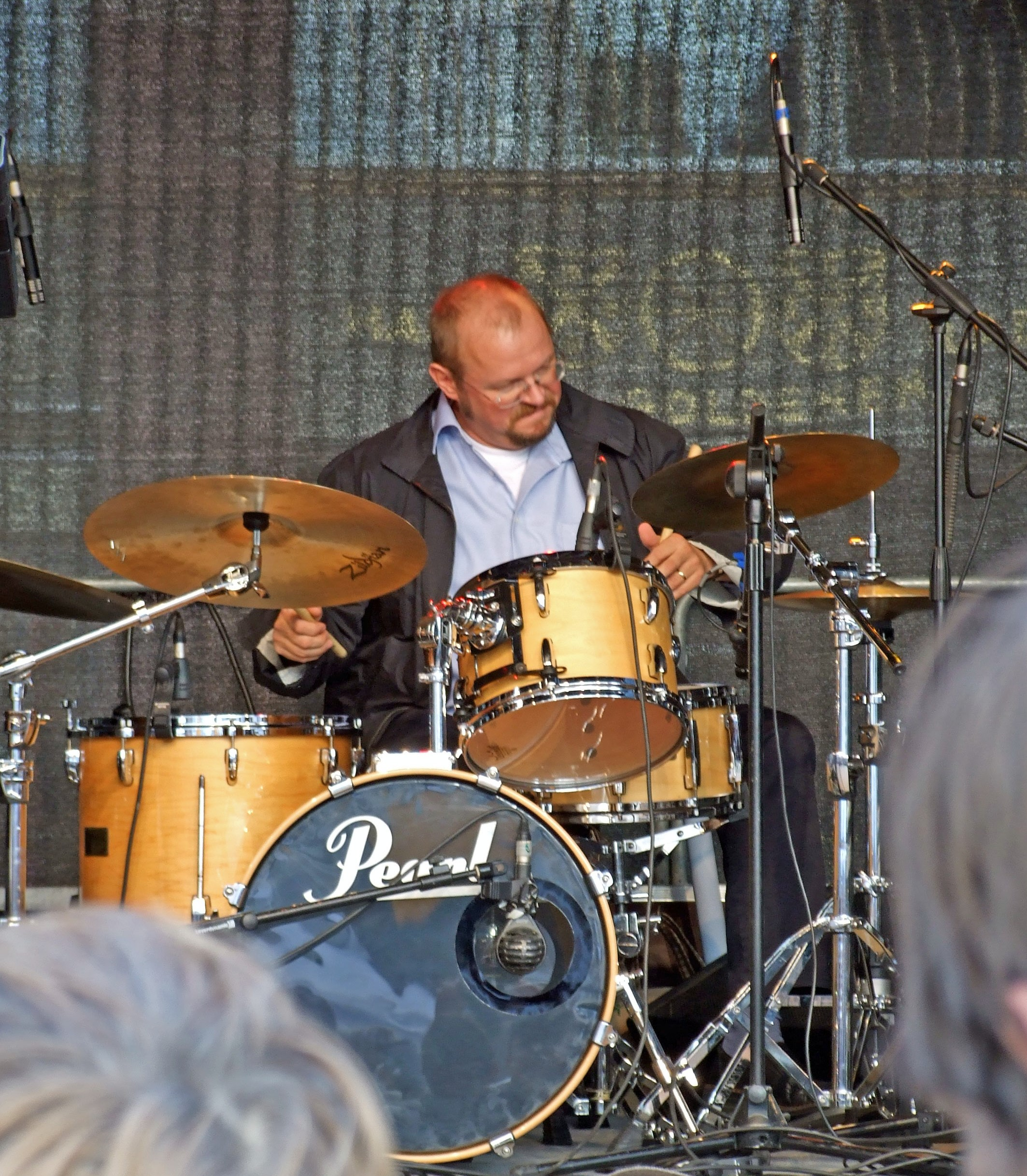 Gregor Beck (Paul Kuhn Trio) at "Roemerberg" in Frankfurt am Main